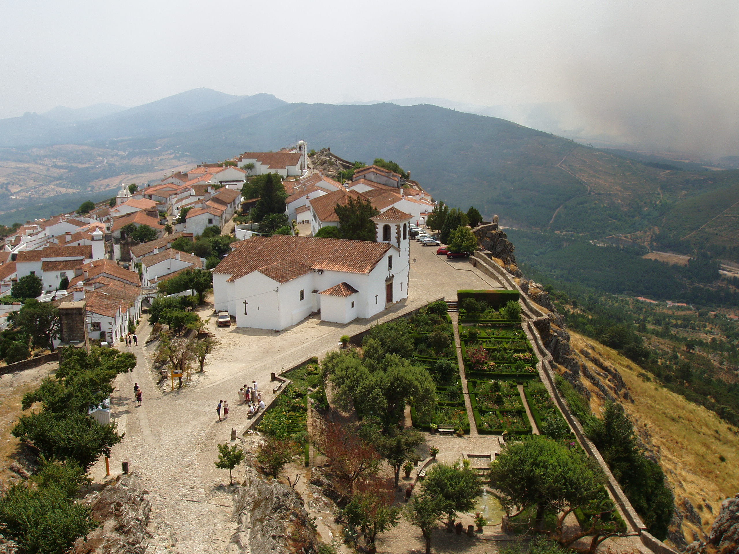 View of portuguese village Marvão from castle. Burning forest on the left-top.